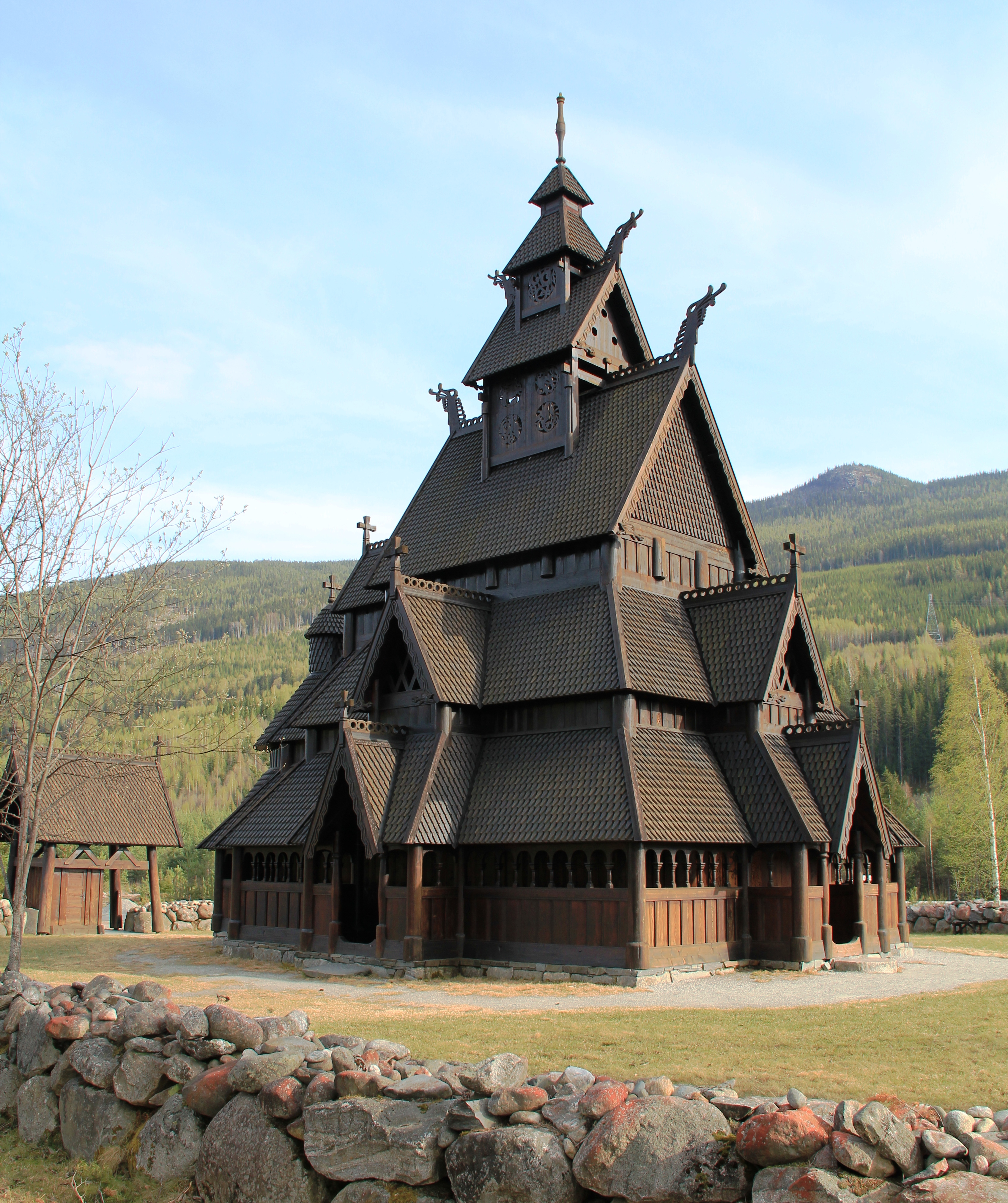 Gol stavechurch, the replica at Gol.